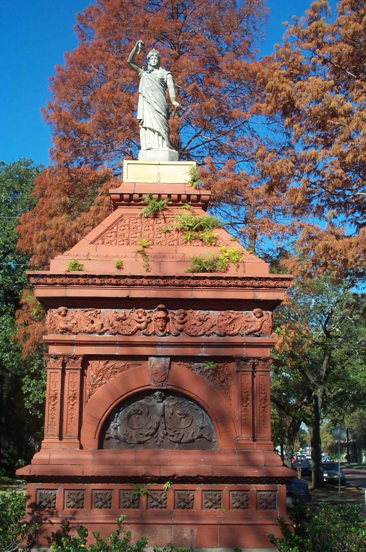 This monument on Esplanade Avenue, New Orleans, was originally constructed for the 1884 World's Fair. New Orleans